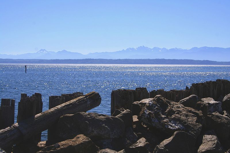 Admiralty Inlet, Washington, United States